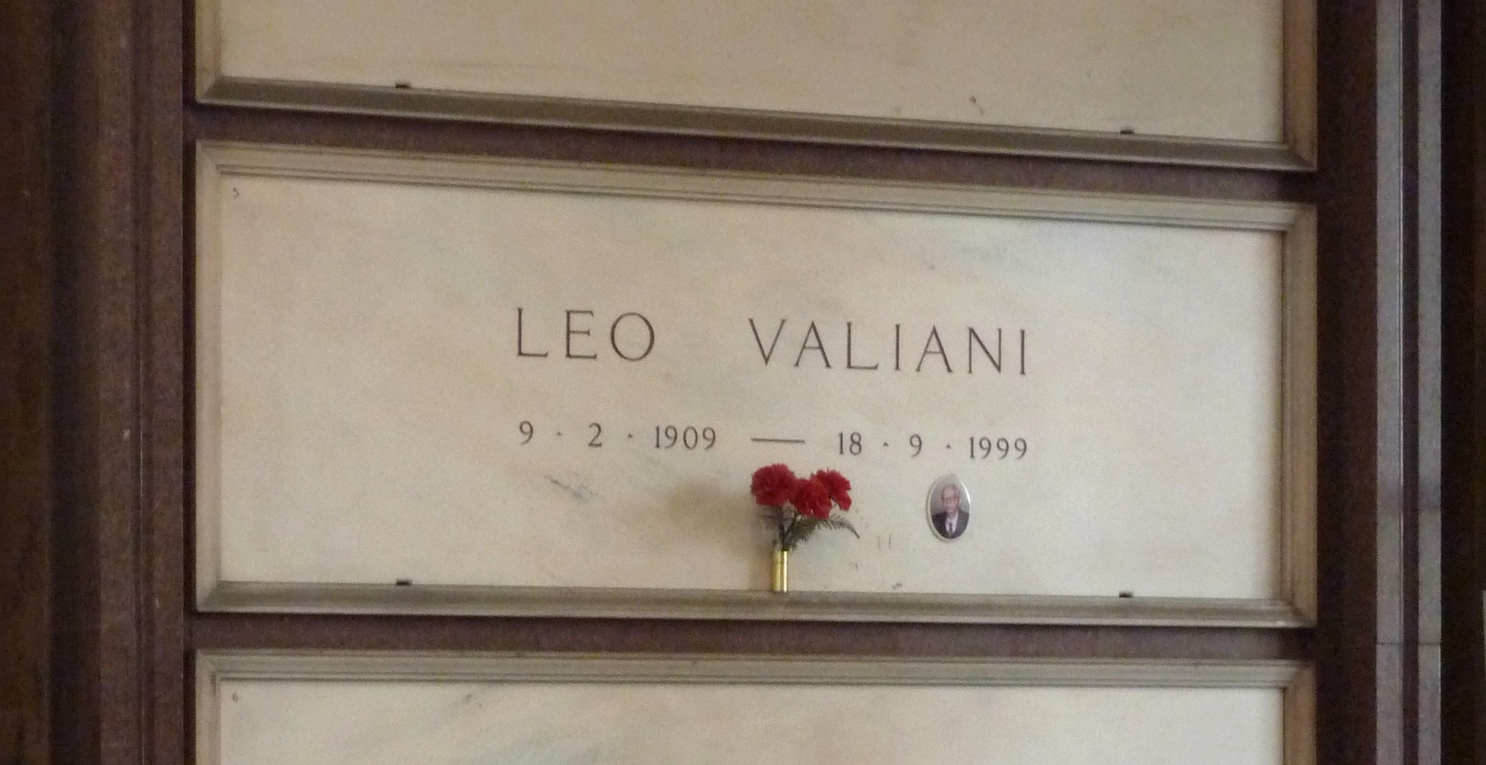 The grave of Italian politician Leo Valiani at the Cimitero Monumentale in Milan, Italy.